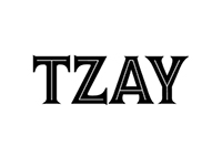 logotype